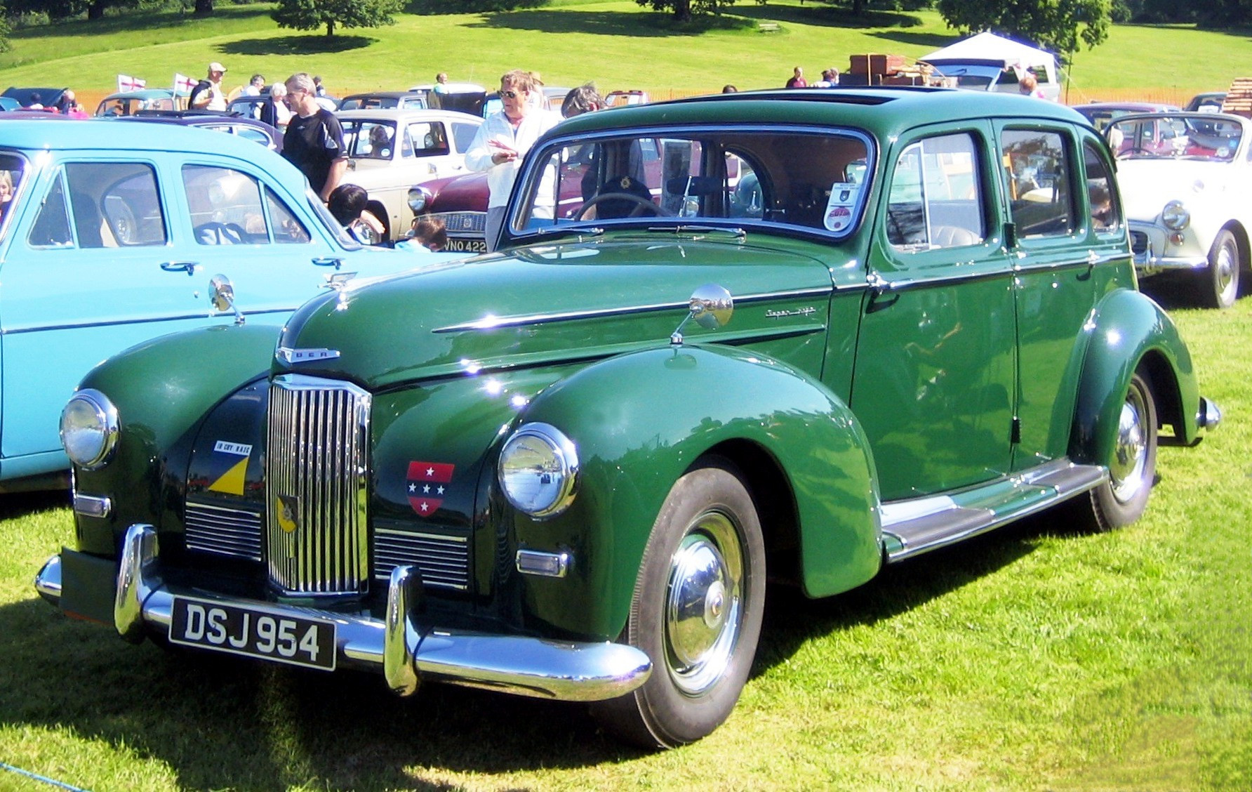 Humber Super Snipe dated at 1951 photographed near Brentwood in June 2008